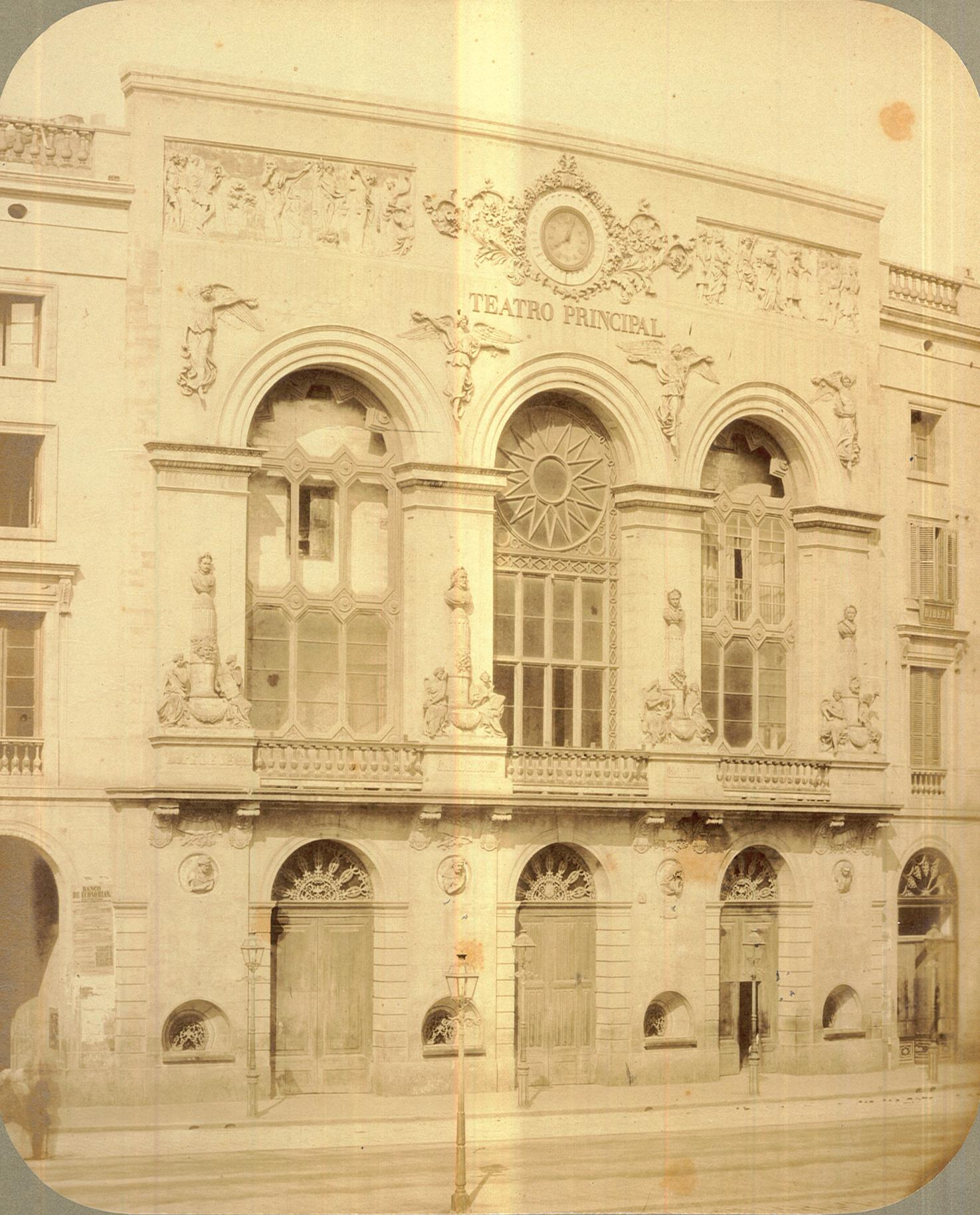 Old façade of Teatre Principal, at Rambla of Barcelona; projected in 1847 by Francesc Daniel i Molina, was rebuilt ca. 1880